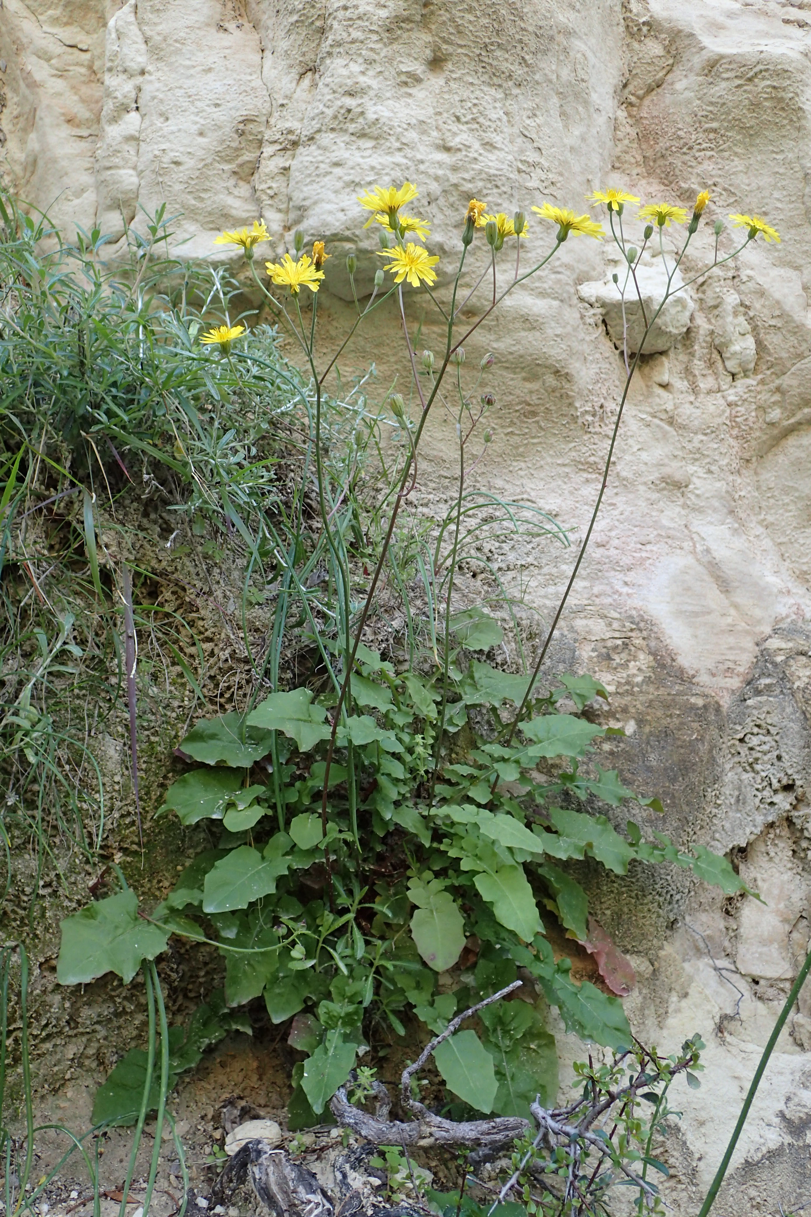 Crepis reuteriana in Avakas Gorge, Cyprus